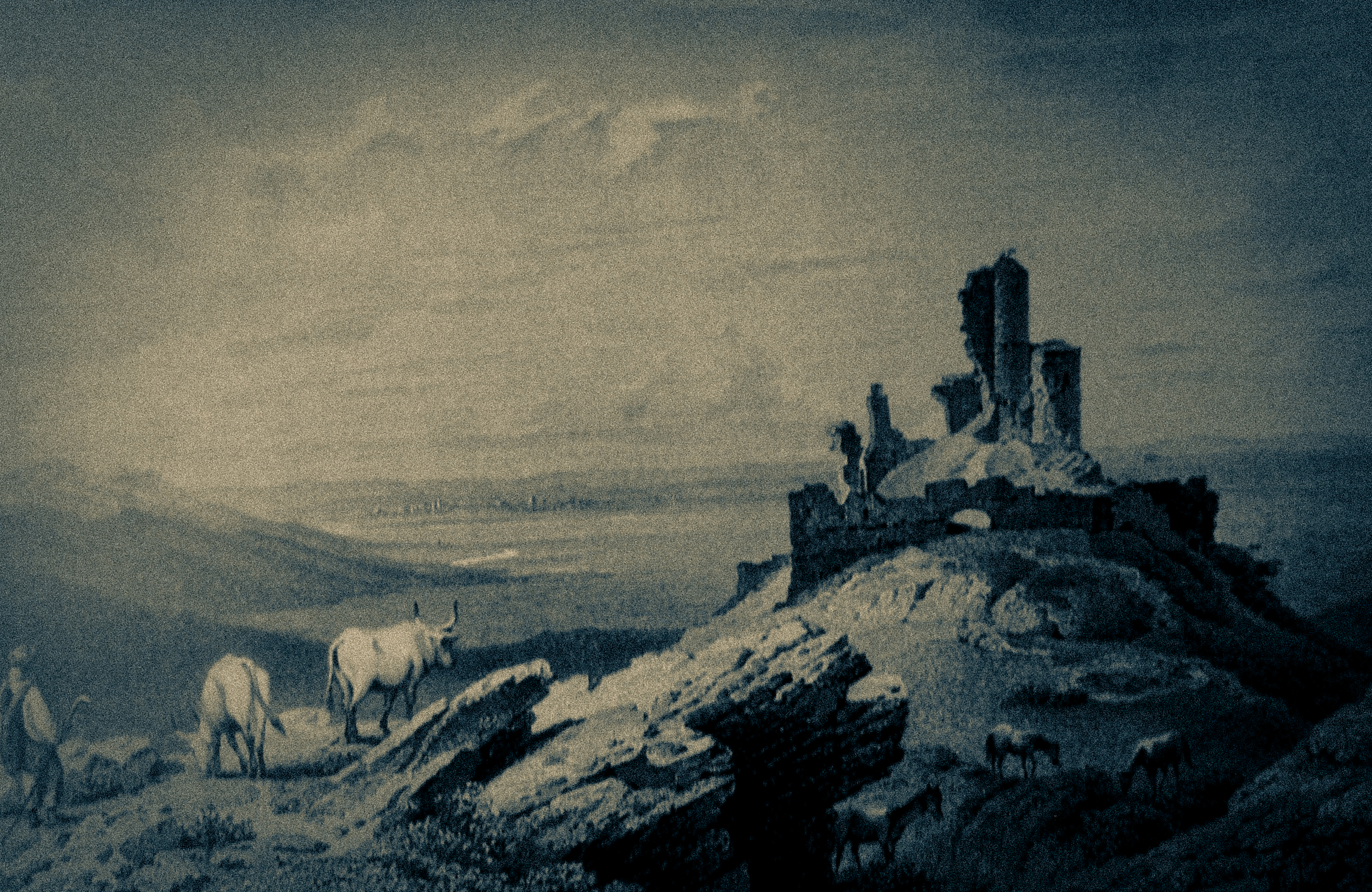 Şiria by Ludwig Rohbock